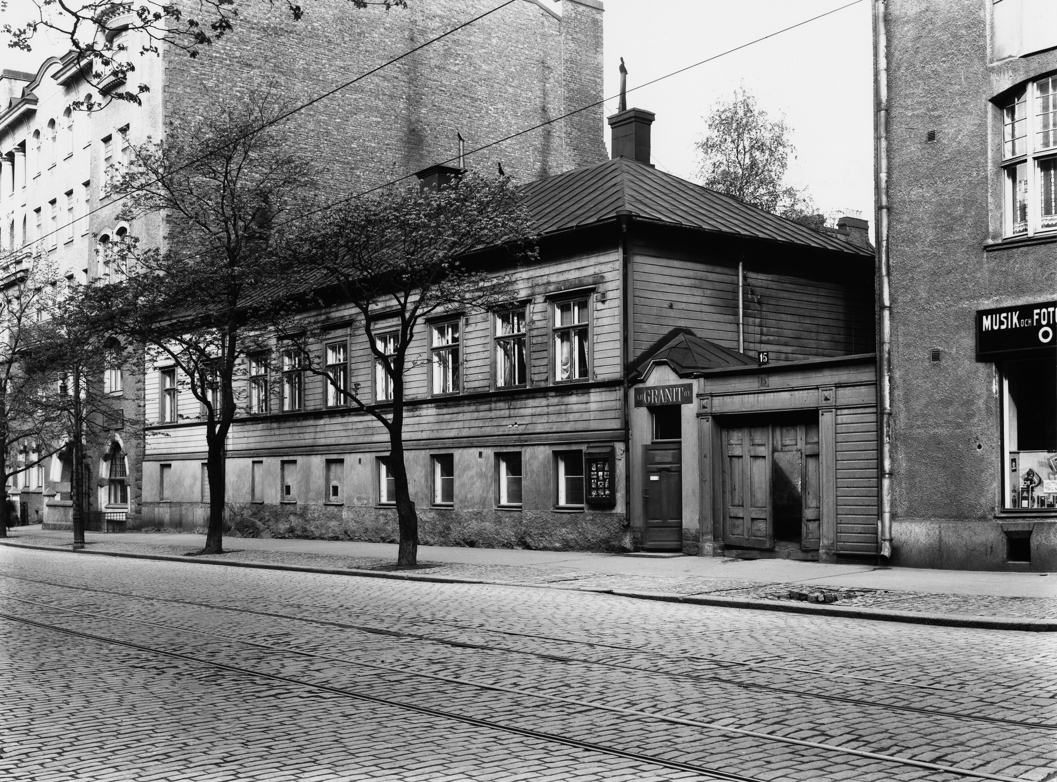 Streetview of Bulevardi 15 in Helsinki where Ab Granit Oy holds office. 1929.